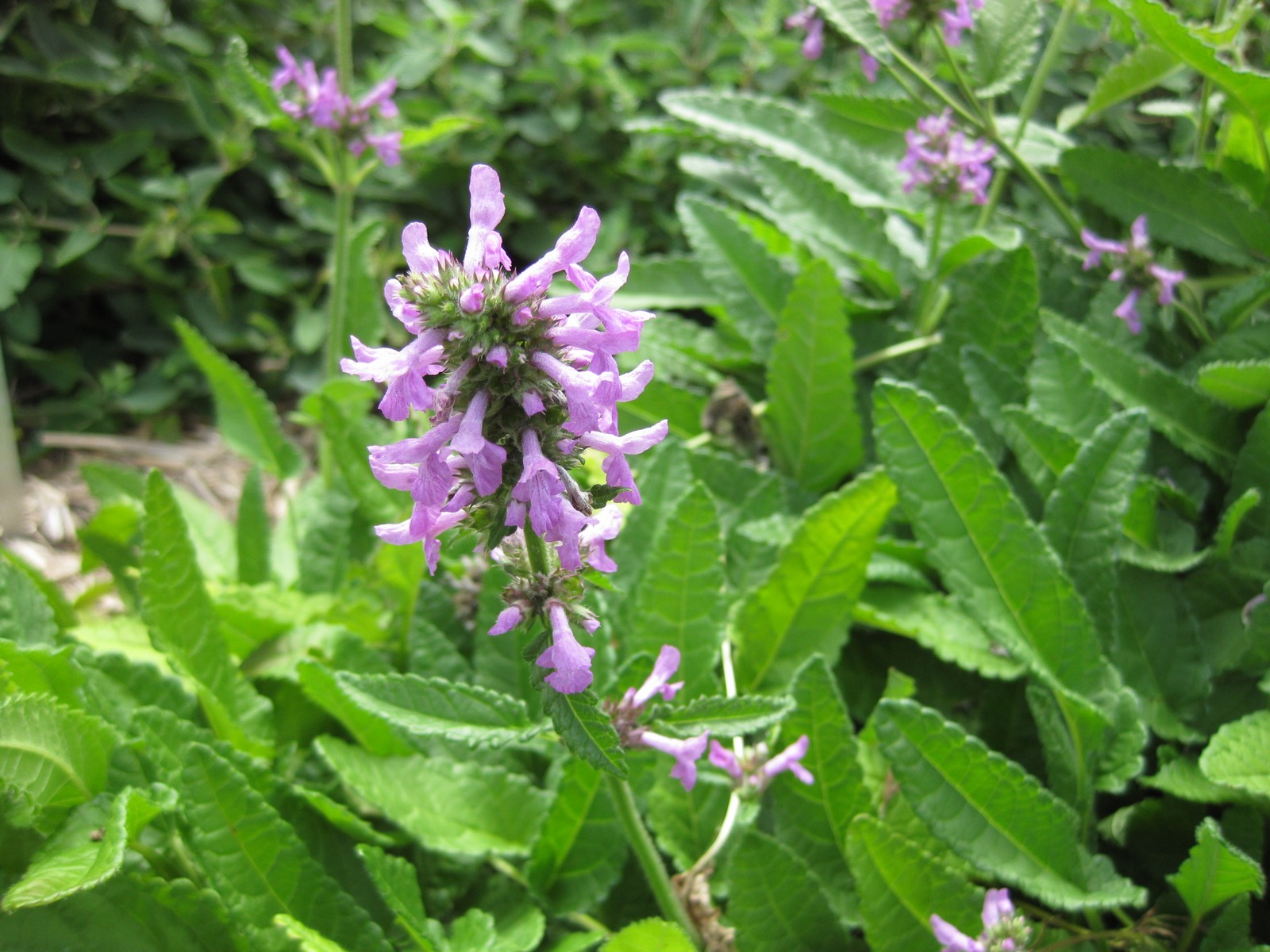 Photographed at the Royal Botanic Gardens Sydney (Australia) in January